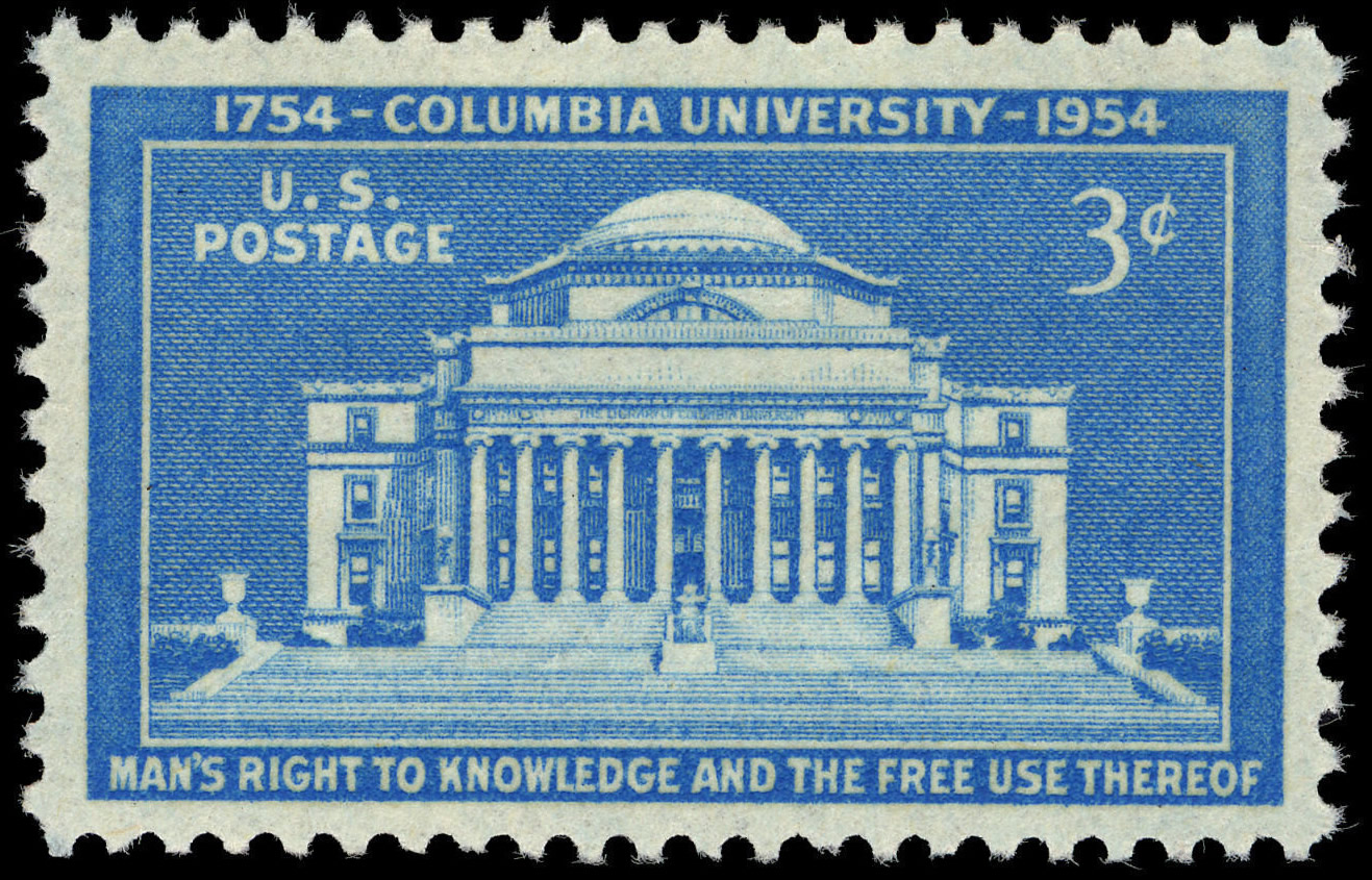 Columbia University 200th Anniversary 3-cent 1954 issue U.S. stamp. The stamp's central design shows a frontal view of the Low Memorial Library at Columbia University.